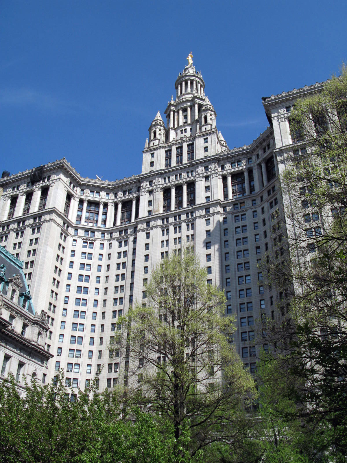 Municipal Building, New York City